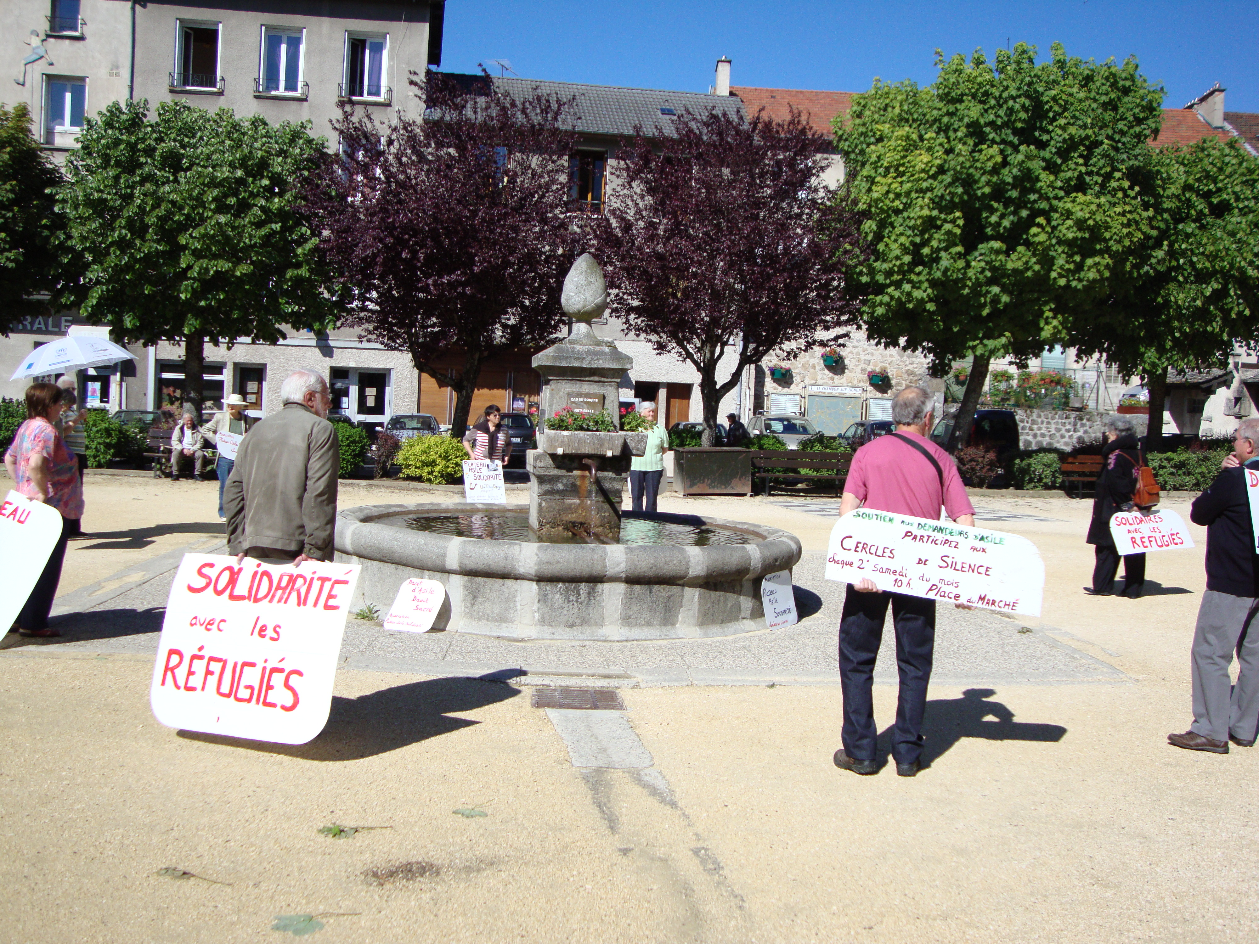 Le Chambon-sur-Lignon (Haute-Loire, Fr) Cercle de silence, demonstration against the french immigration law